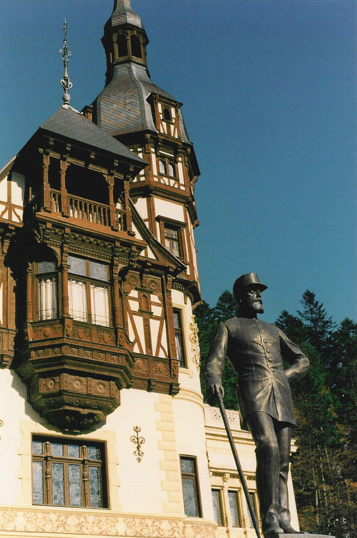 Statue of King Carol I of Romania in front of the Peleş castle. Scanned at 300 dpi from color print, some very slight cleanup. 01